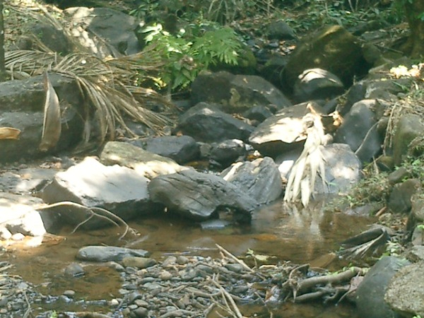 A view from Hajimala, Kakkadampoyil(these connect many bodies of water)